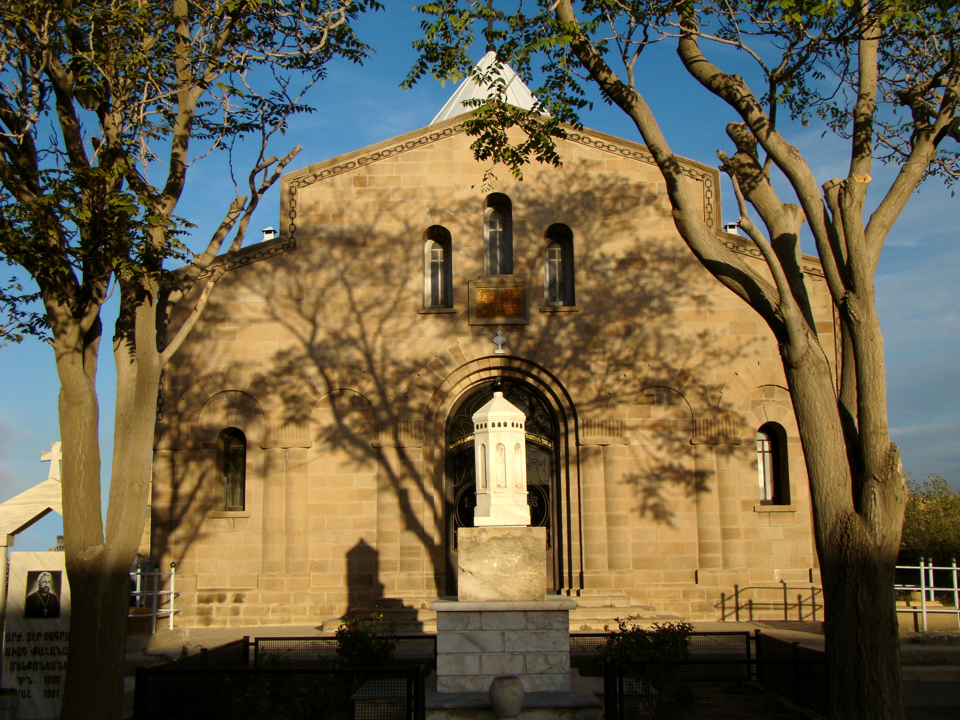 Direct plan of Shogaghat Church - Tabriz